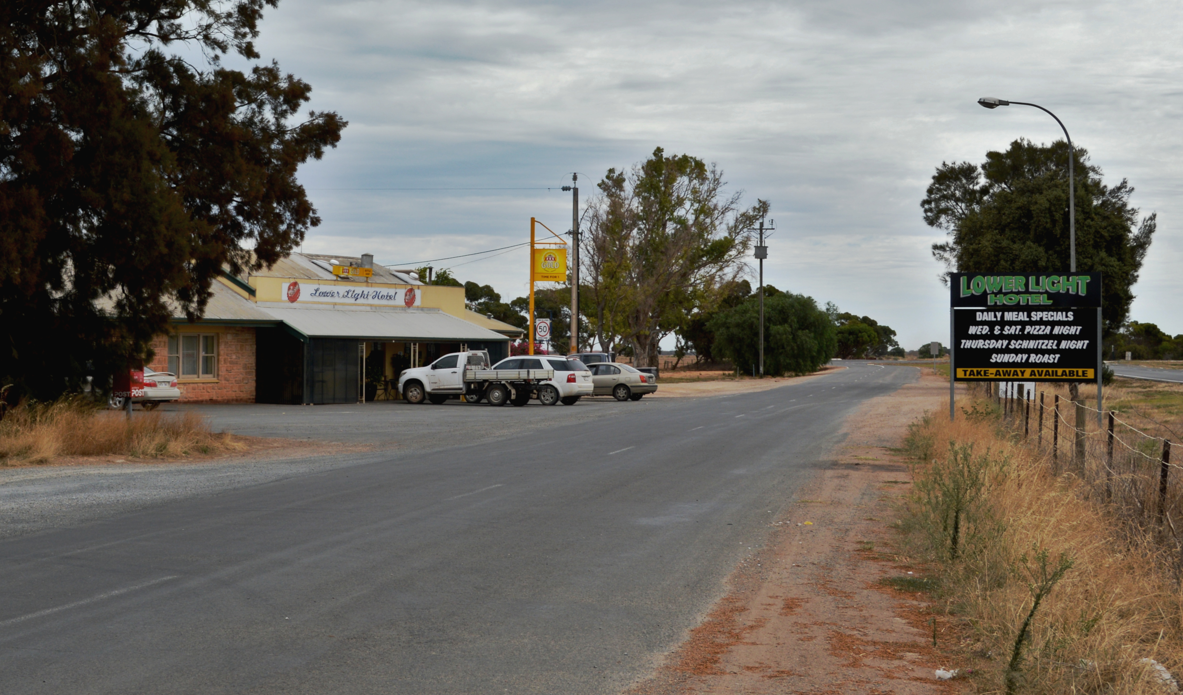 Lower Light Hotel, on main road of Lower Light